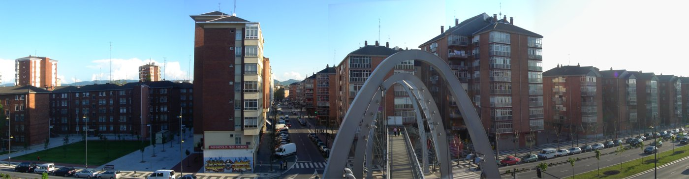 Zaramaga neighbourhood (Vitoria-Gasteiz)